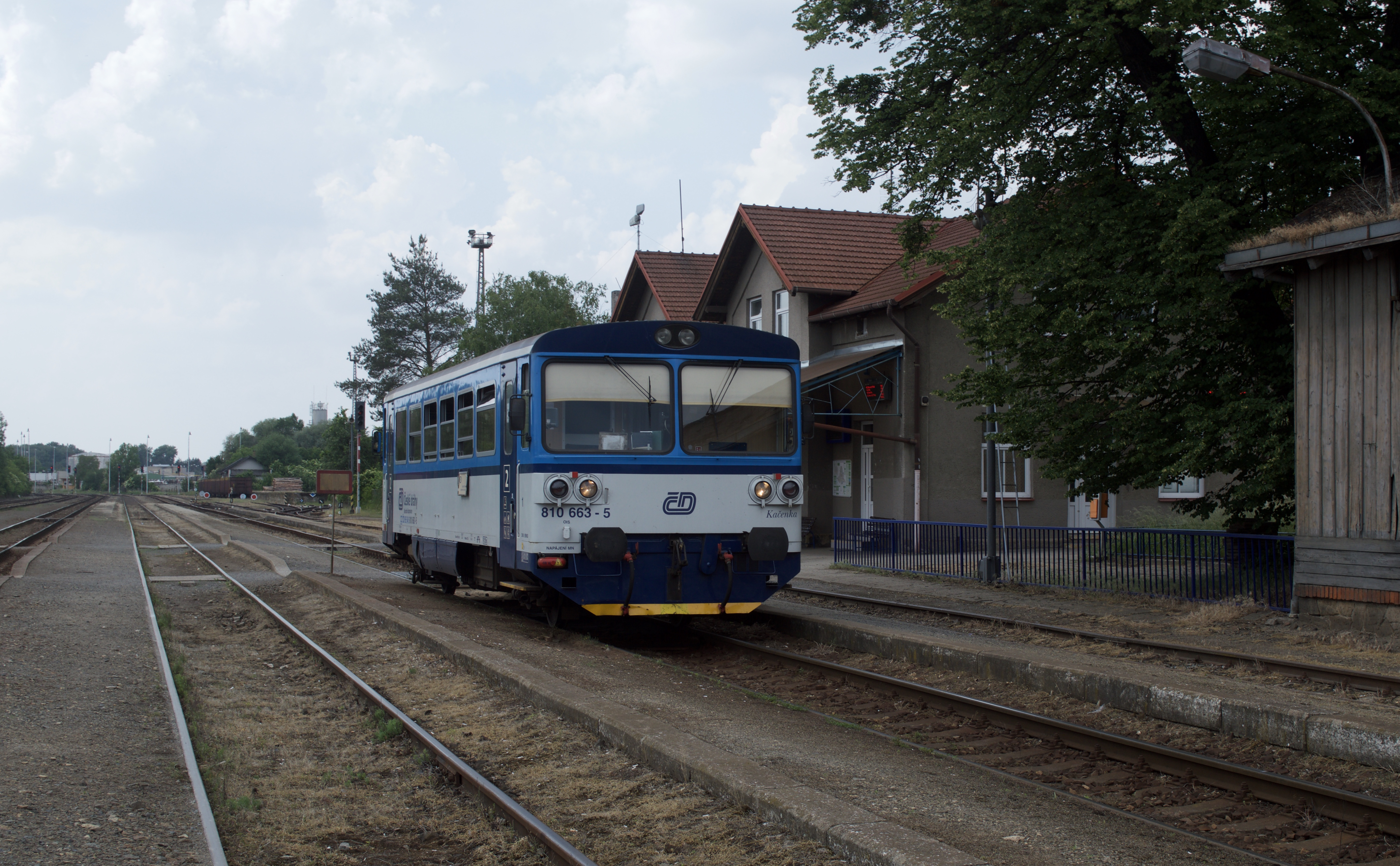 A shuttle service between Bzenec and Moravský Písek runs to connect two lines via a 4km long spur. Seen before departure is 810663 on train Os24139, 15:36 Bzenec to Moravský Písek on 12 May 2018.